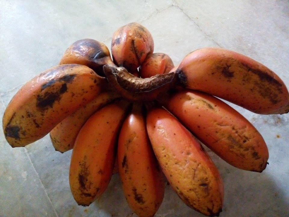 Red Banana